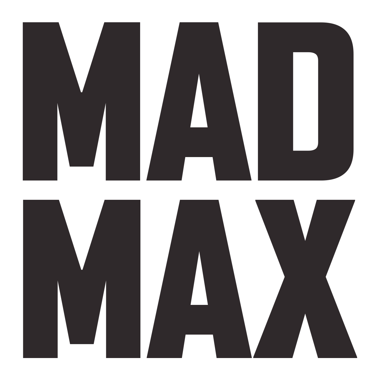 Mad Max logo